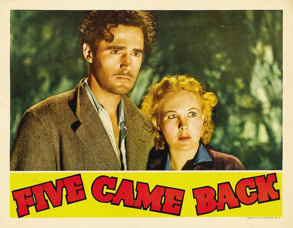 Lobby card for the 1939 film, Five Came Back